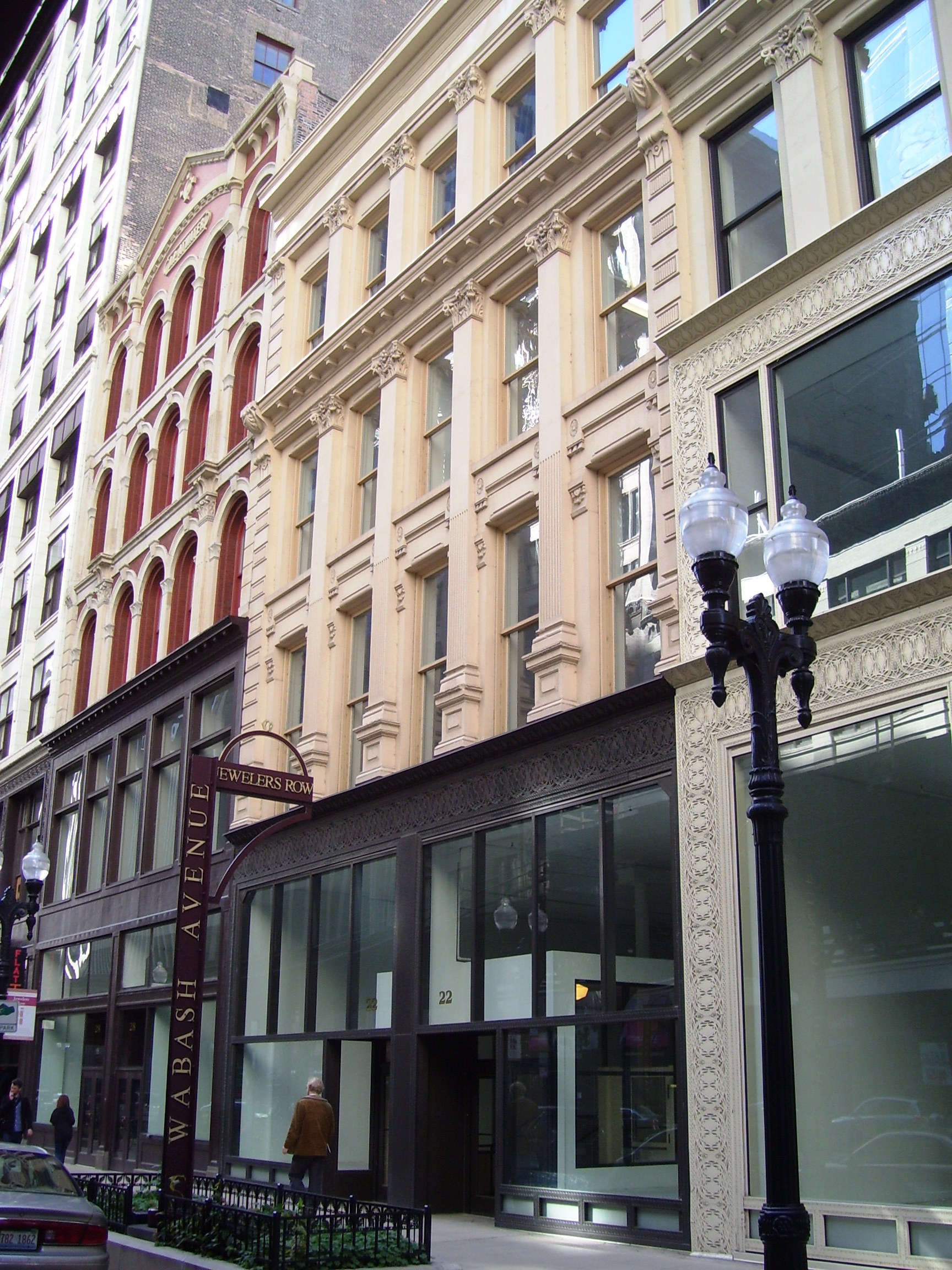 The Haskell, Barker & Atwater Buildings at 18, 22 and 28 South Wabash Avenue between East Madison and East Monroe Streets in the Loop neighborhood of Chicago, Illinois, were all built in 1870s and are some of the few remaining post-Chicago fire buildings remaining in the Loop. The Haskell and Barker building were built in 1875 and were designed by Wheelock & Thomas. Louis Sullivan designed a new storefront for the Barker Building in 1896, and for the Haskell Building in 1903. The Atwater Building was built in 1877 by John Mills van Osdel, Chicago's first registered architect. All three buildings become part of the Carson Pirie Scott Department Store after 1927, now the Sullivan Center, and were renovated by Harboe Architects in 2008. They were named Chicago Landmarks in 1996.